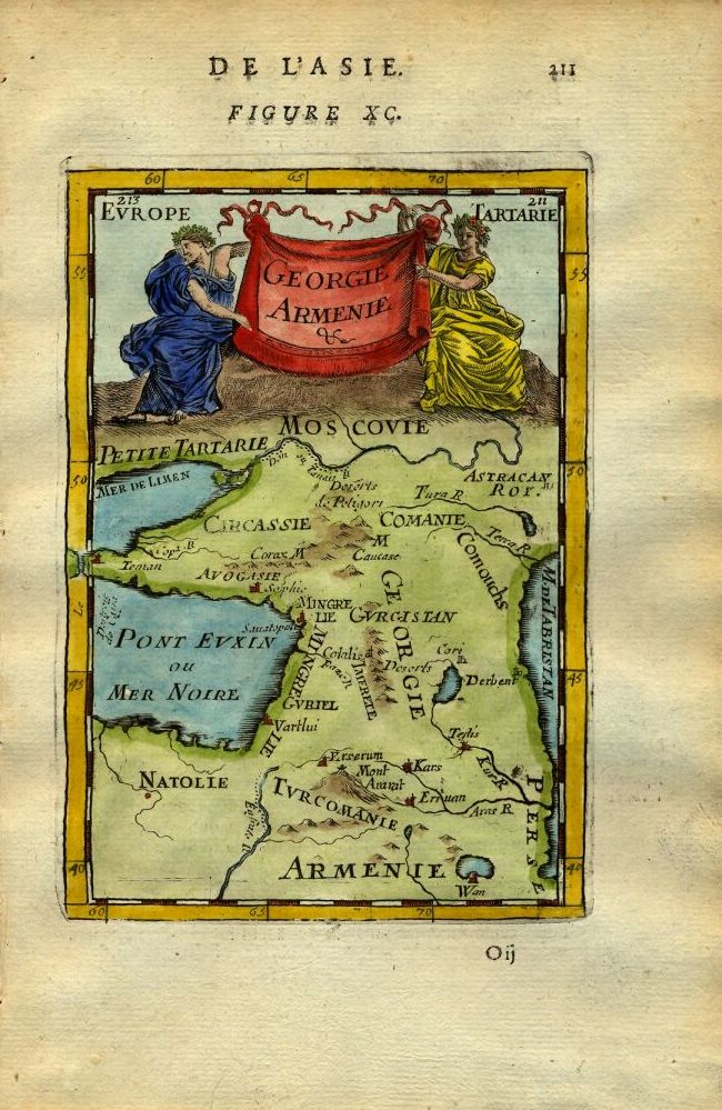 Map of Armenia and Georgia, Description de L'Universe (Alain Manesson Mallet, 1683).